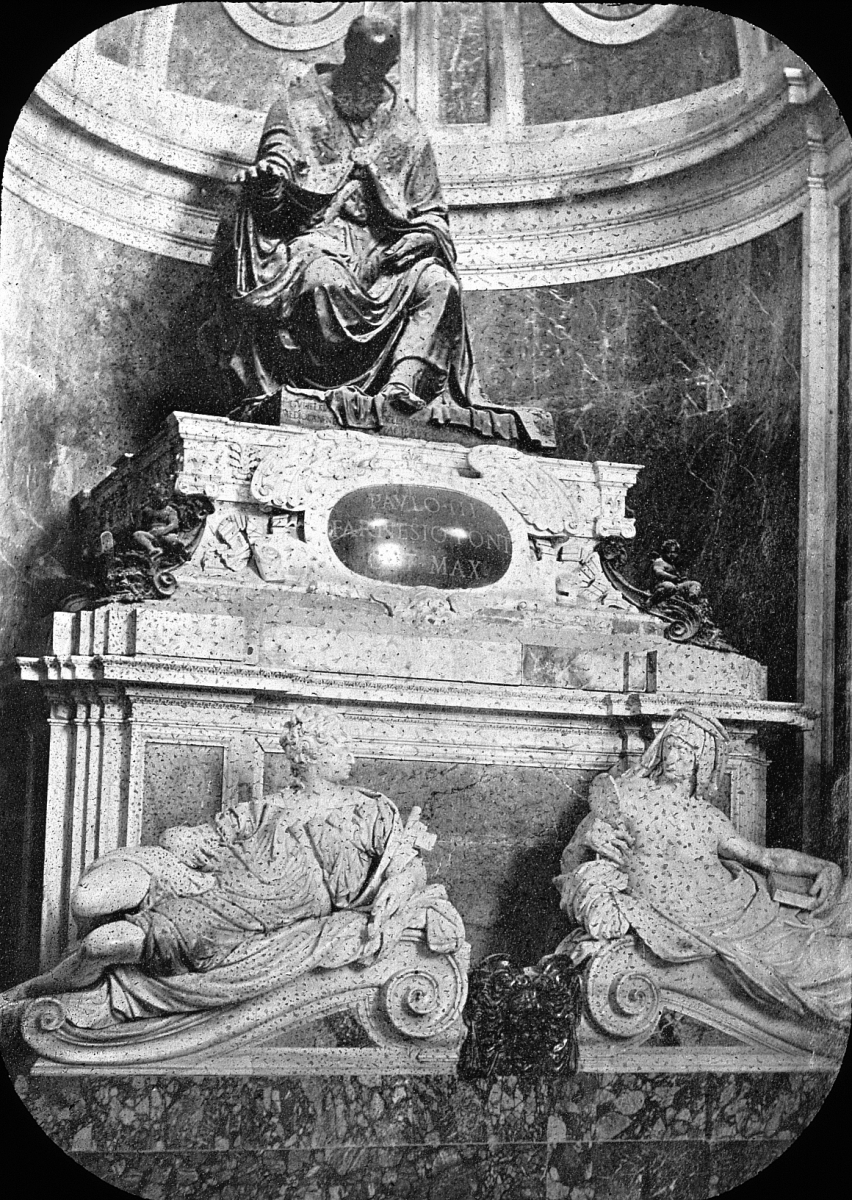 S. Peter, Rome, Italy. St. Peter's, tomb of Paul III. Brooklyn Museum Archives, Goodyear Archival Collection (S03_06_01_023 image 2984).